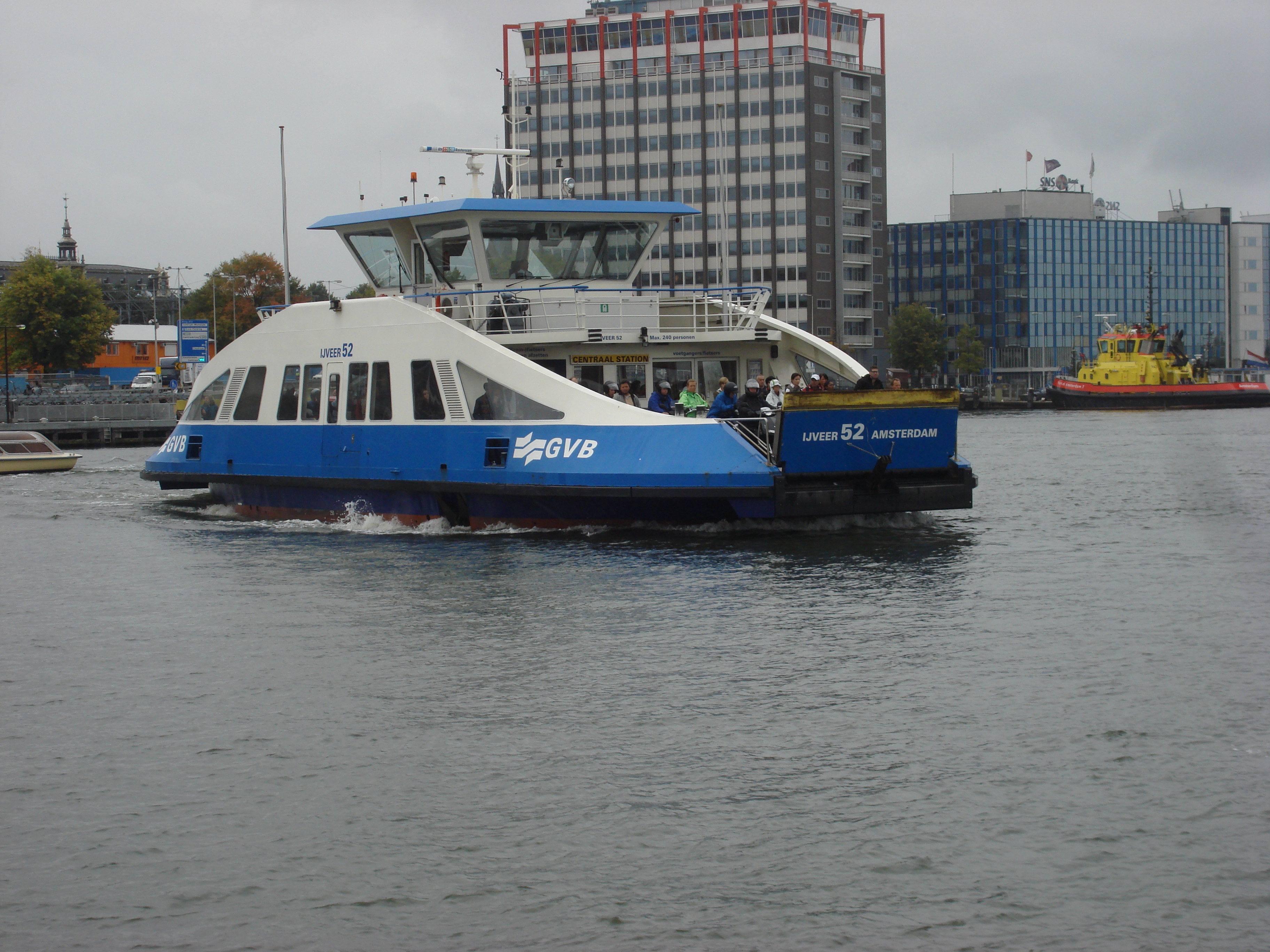 Gemeentelijk Vervoerbedrijf (GVB) ferry Ijveer 52